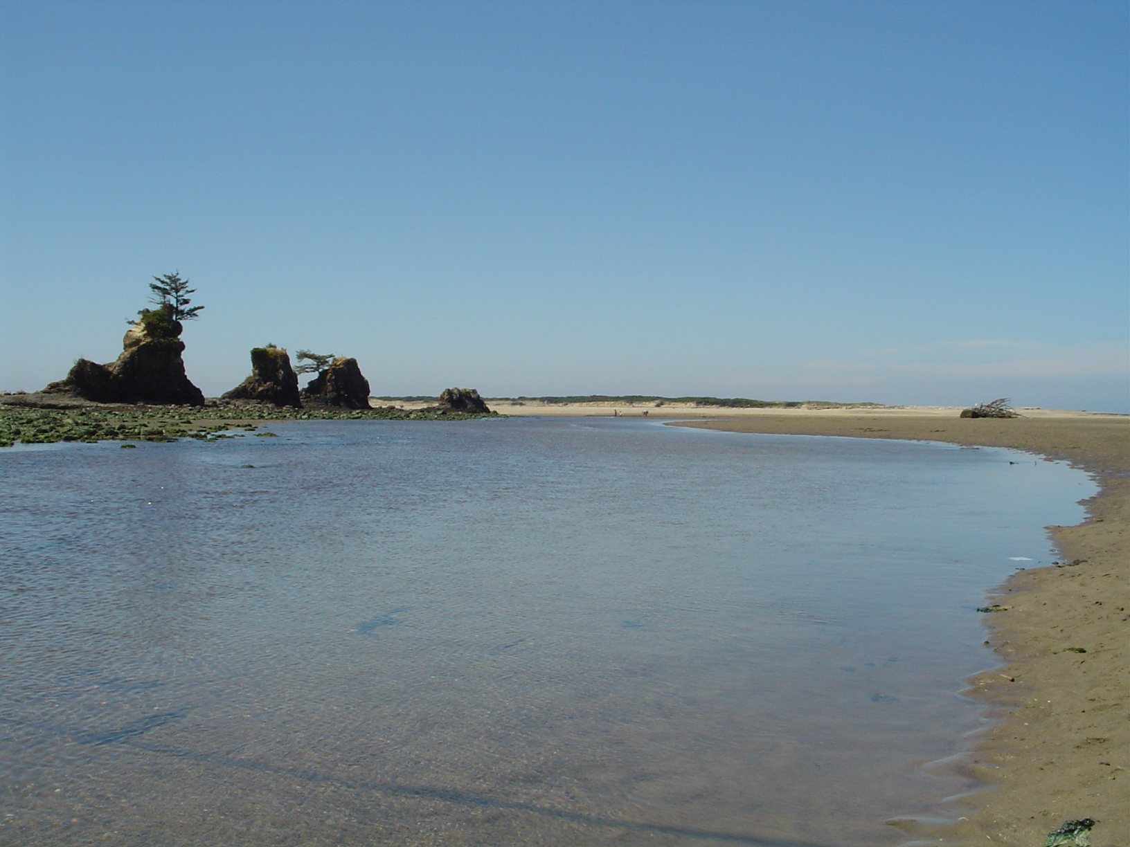 Siletz Bay in Lincoln City, Oregon